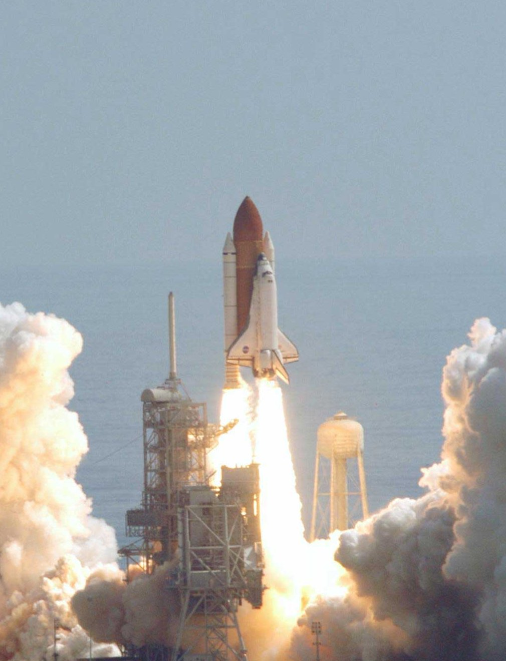 Discovery and its seven-member crew launched at 10:39 a.m. EDT to begin the two-day journey to the International Space Station. Discovery is slated to dock with the ISS at 7:18 a.m. EDT Thursday.